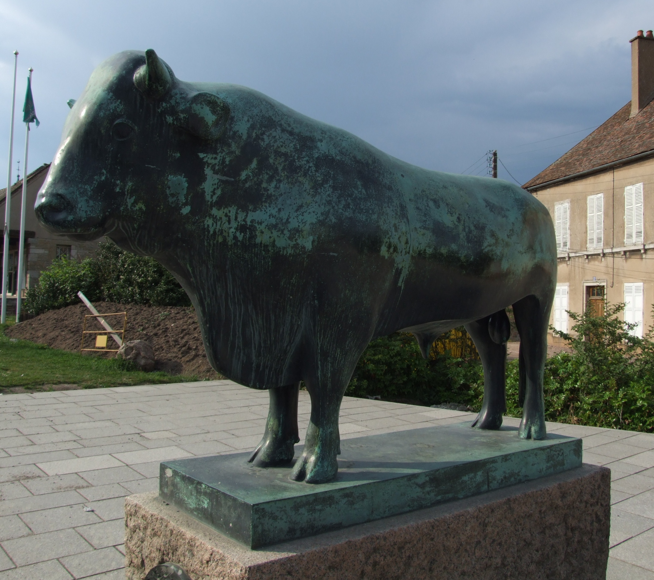 Saulieu, Burgundy, FRANCE